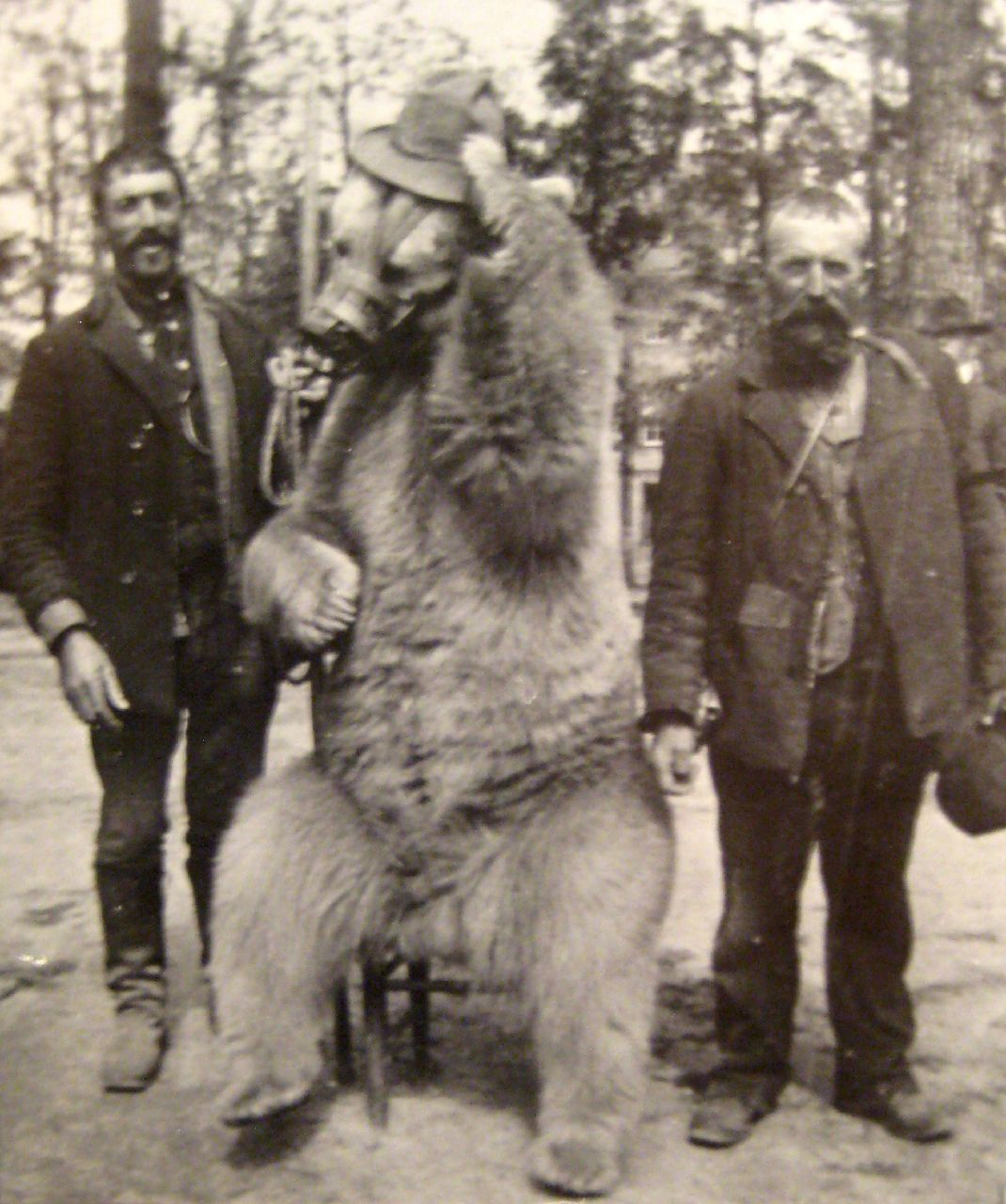 A dancing bear performing in the United States